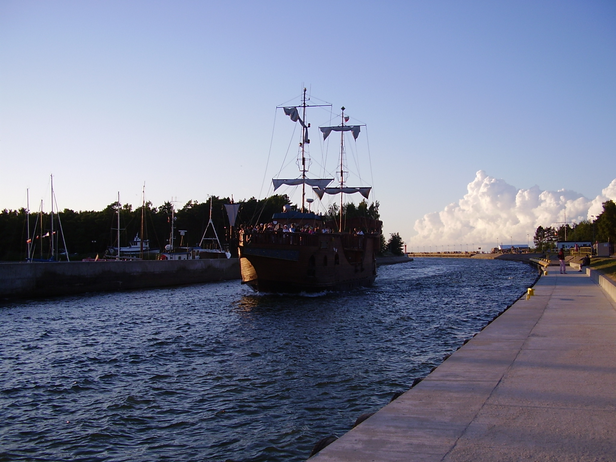 ship Wiking at harbour in Łeba (Poland)